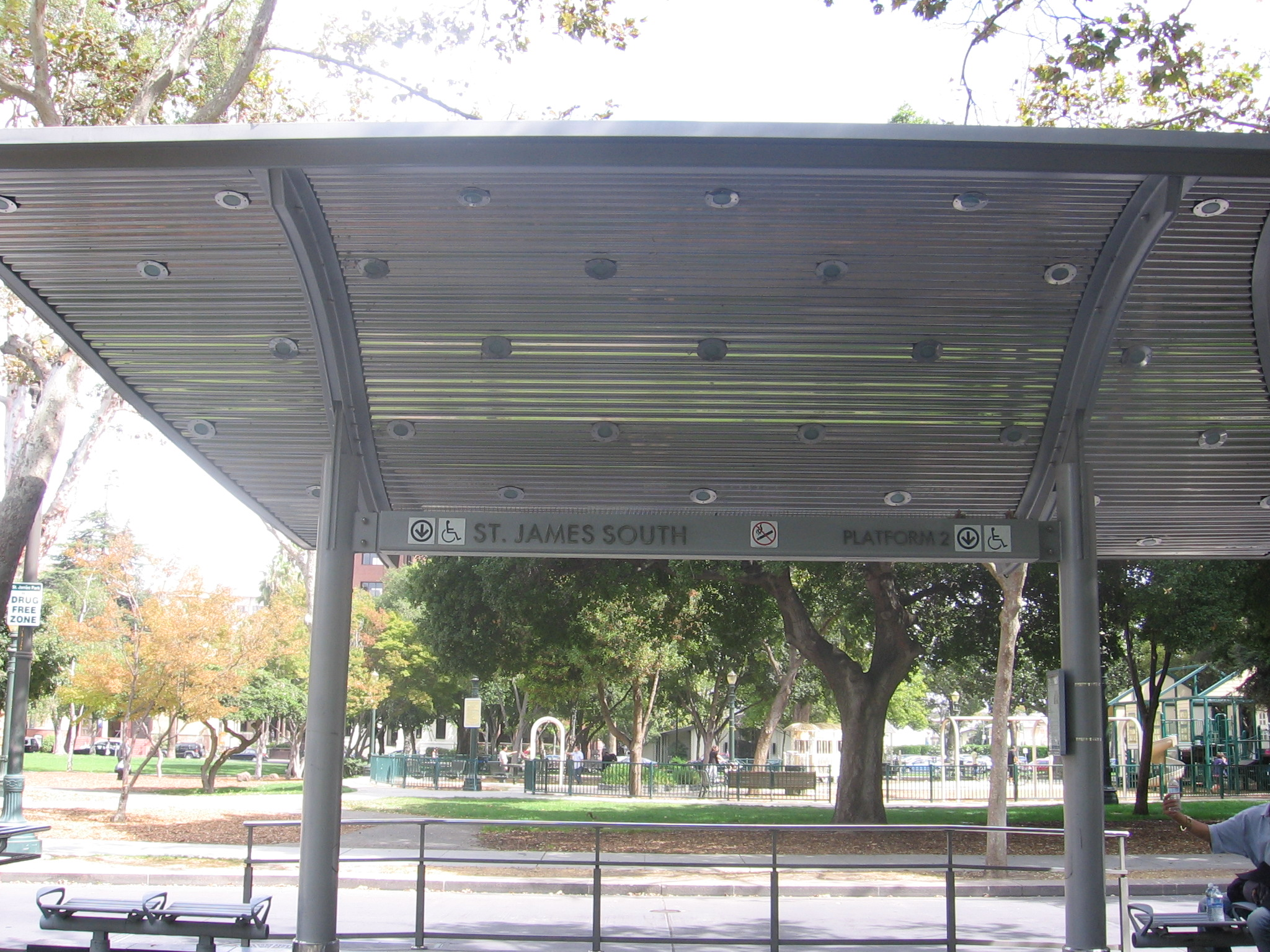 The Saint James (VTA) light rail and bus station in San José, California, USA.